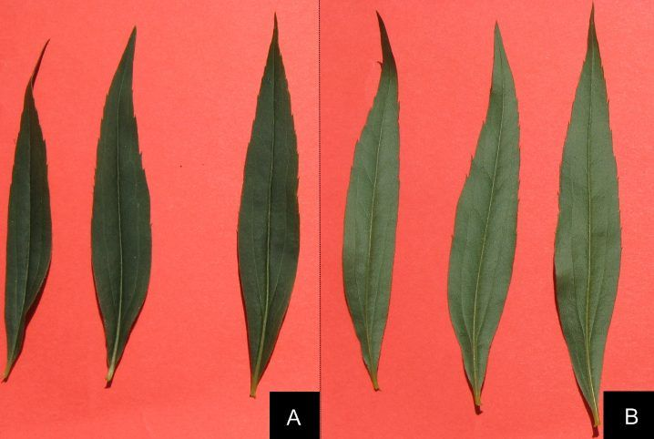 Solidago gigantea